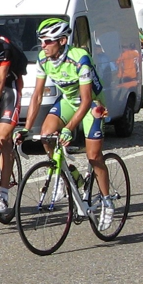 Valerio Agnoli, 2008 Vuelta a España, 8th stage, Port de la Bonaigua, Spain.